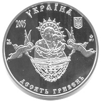 A 10 hryvnia coin with the Sviatohirsk Lavra.